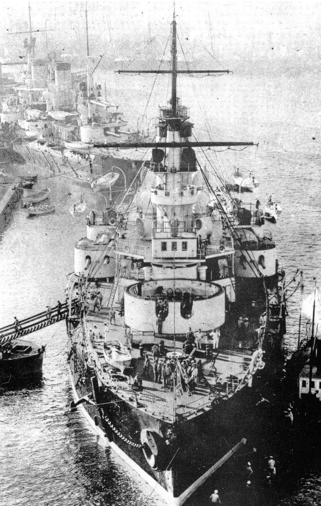 Imperial Russian battleships Poltava and Sevastopol in Kronshtadt, 1899.